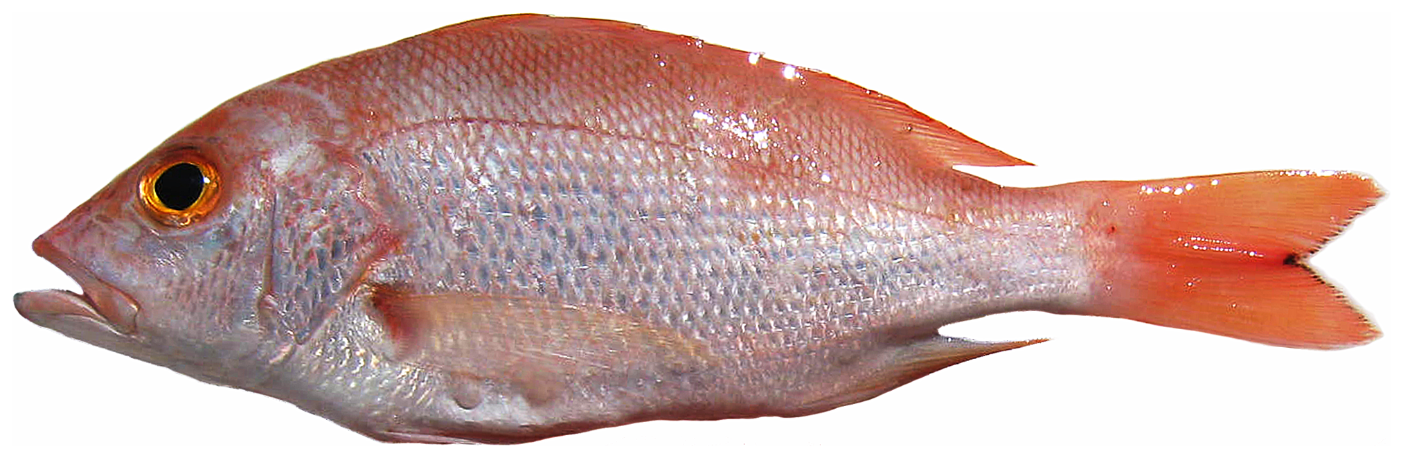 Lutjanus purpureus (Poey, 1866)—Caribbean red snapper, 207 mm SL. Photo by W Toller.